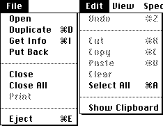 Finder's menu from Mac OS System 1. Not an actual screenshot, but a montage (with a transparent background) representing two dropdown menus simultaneously.